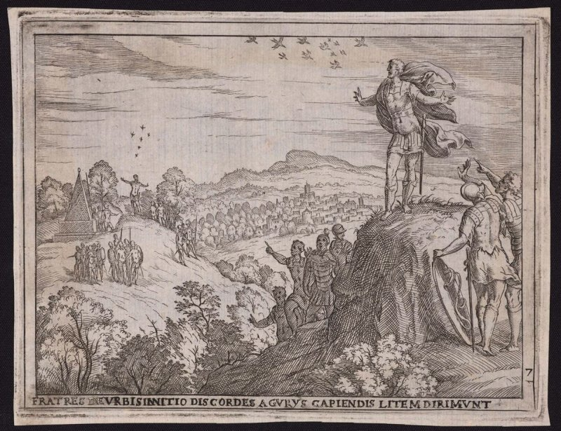 The Brothers, Disputing Over the Founding of Rome, Consult the Augurs, pl.7 from the series The Story of Romulus and Remus